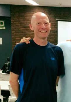 Peter Morville in Tokyo in 2015.